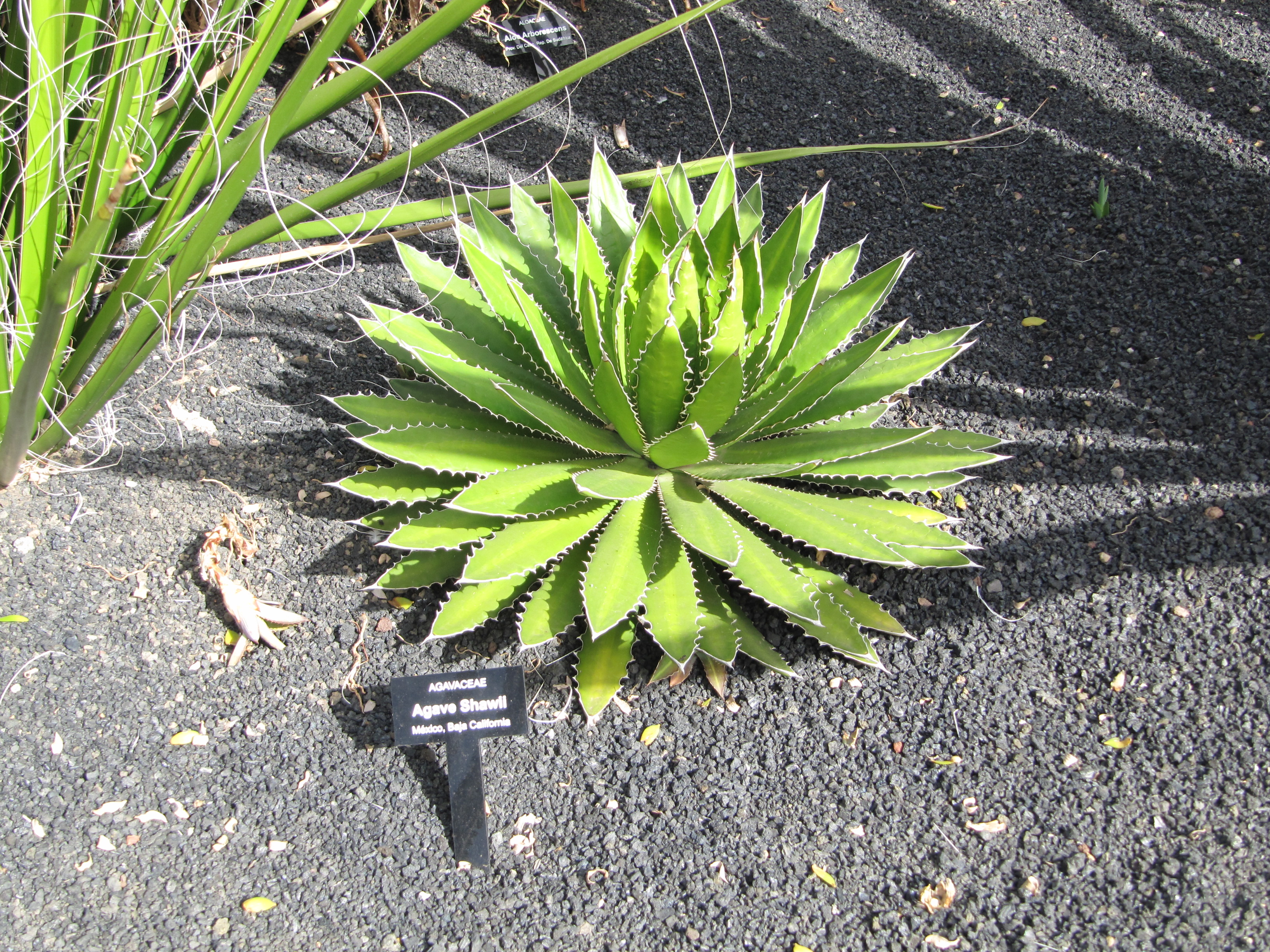 The sign in the photograph is incorrect, the plant pictured is Agave lophantha